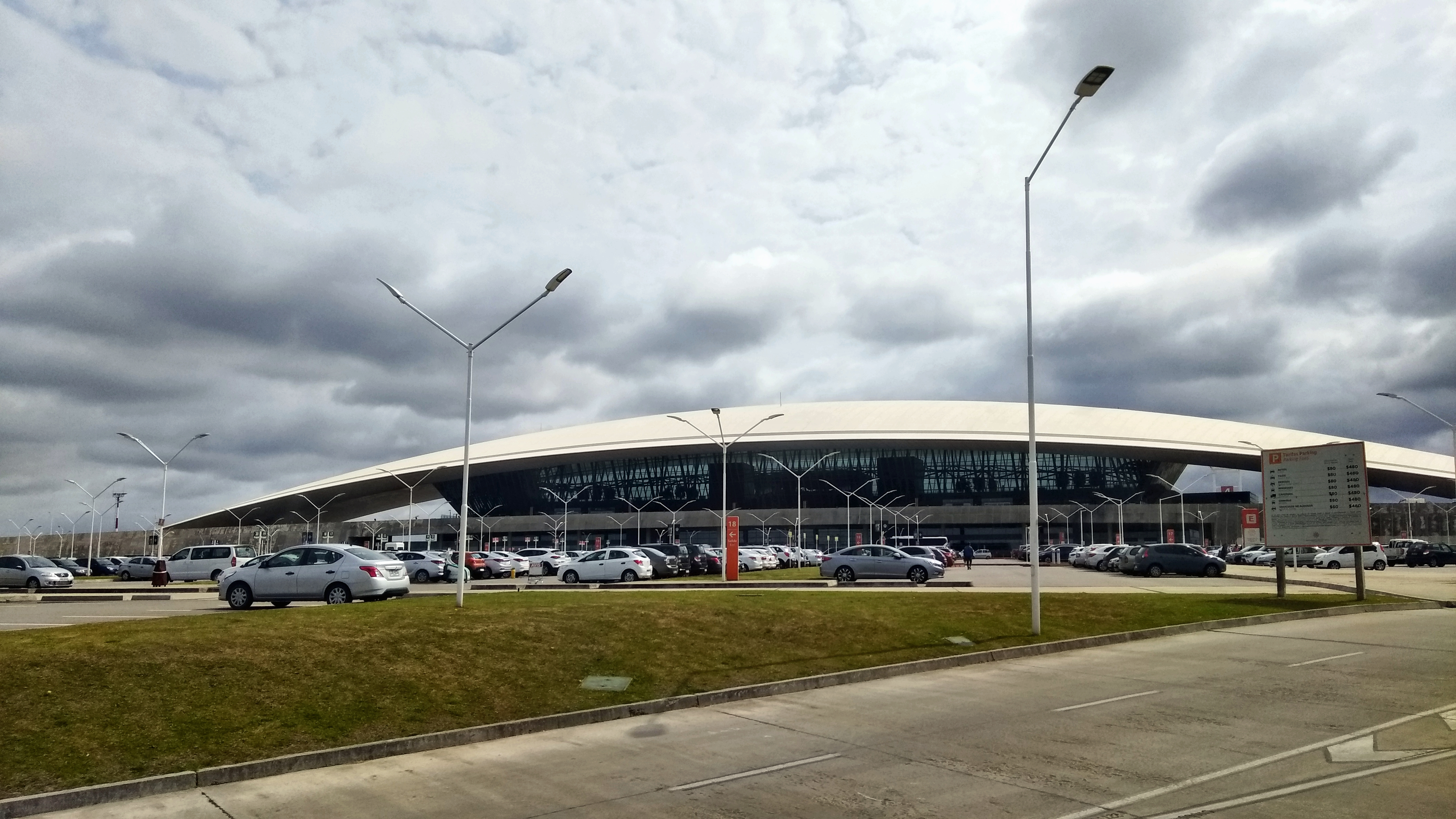 The main terminal of the airport Carrasco in Montevideo city, opened in 2009. The main aiport of the Uruguay